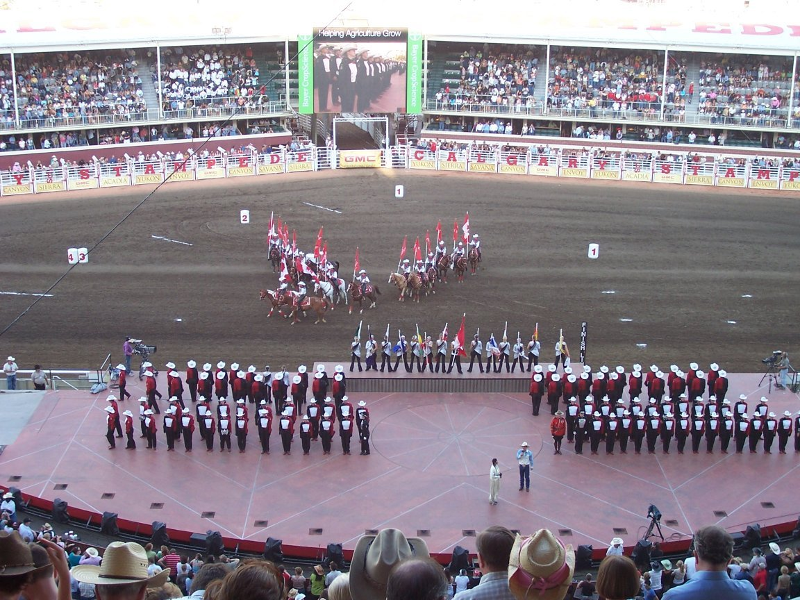 Calgary Stampede, stadium in-field and the Stampede Showband on stage. 2007